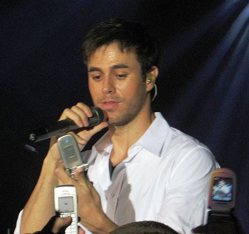 Cropped and enhanced version.